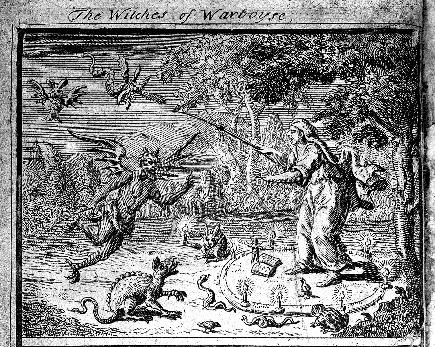 'The Witches of Warboyse.'